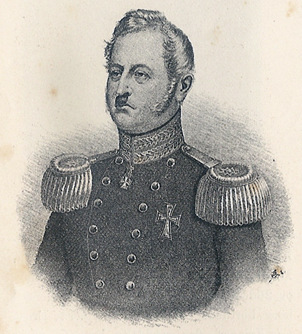 General Hans Christoffer von Hedemann. 1792-1859.